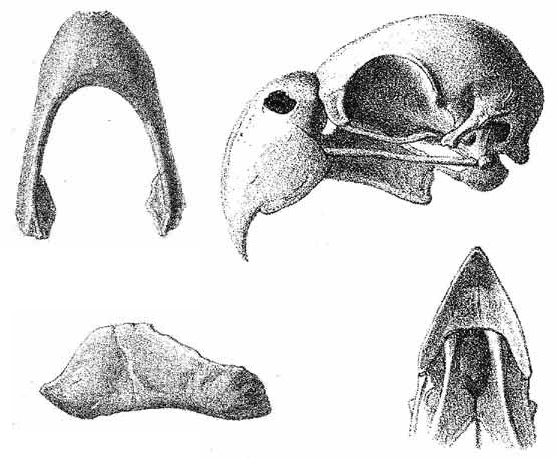 Skull andmandible of the Macarene Parrot (Mascarinus mascarinus).